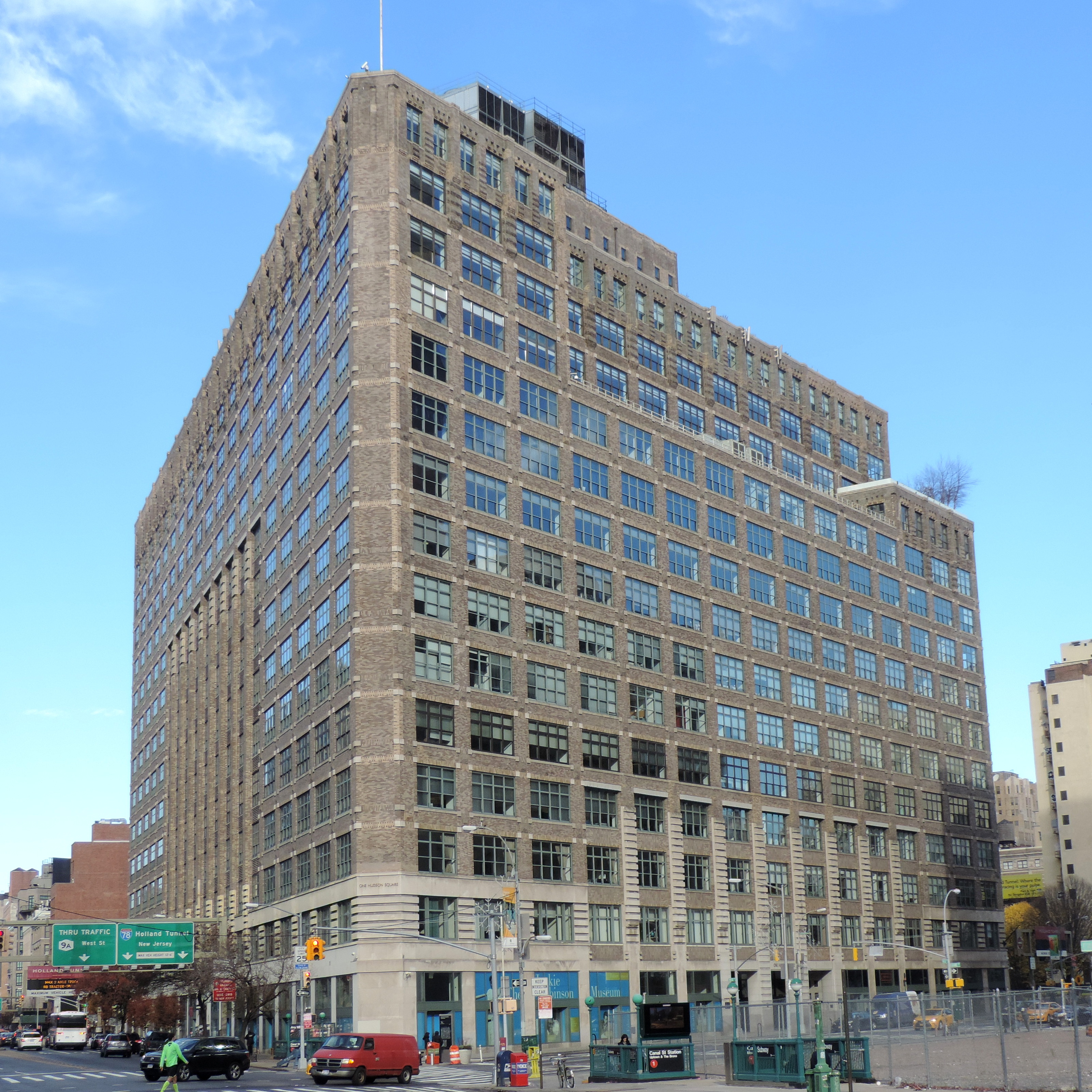 Looking north across Canal St from Sullivan St at One Hudson Square on a mostly sunny morning